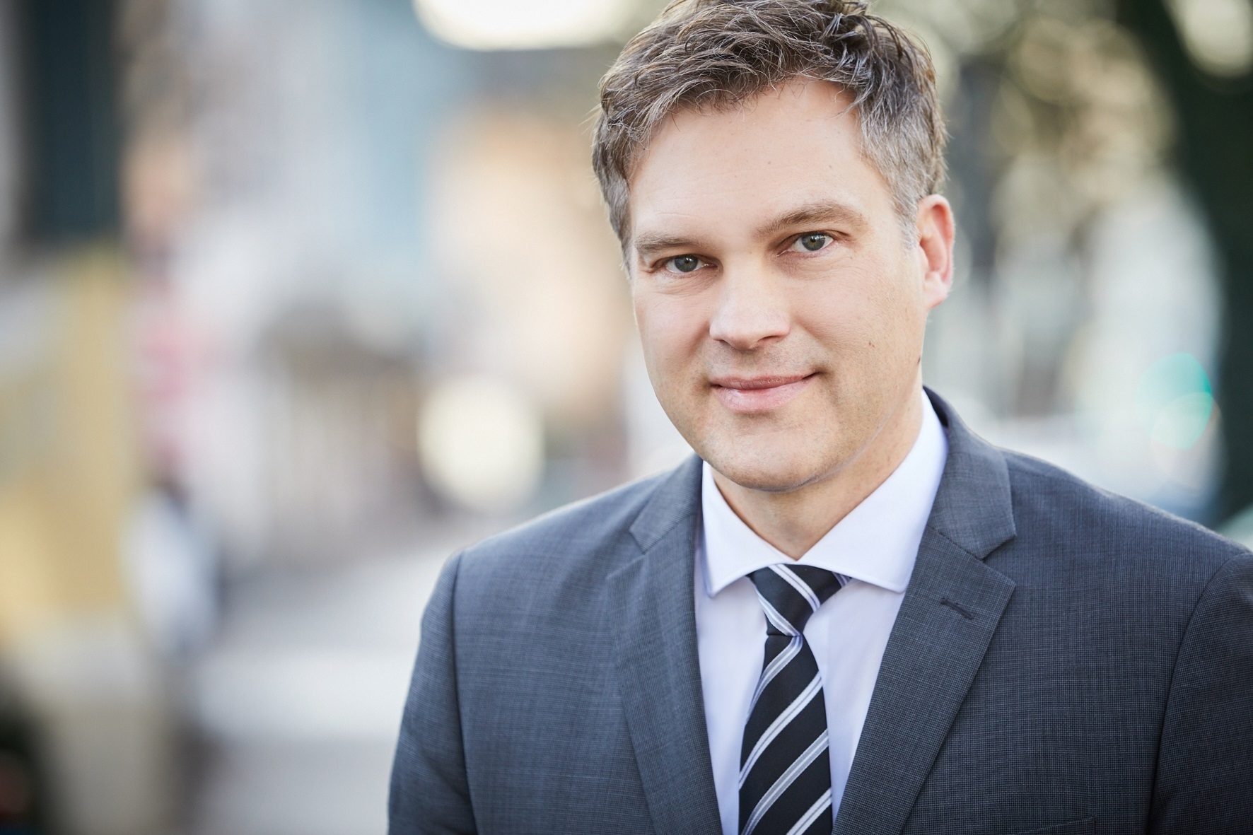 Portrait of Wolfgang Bauer